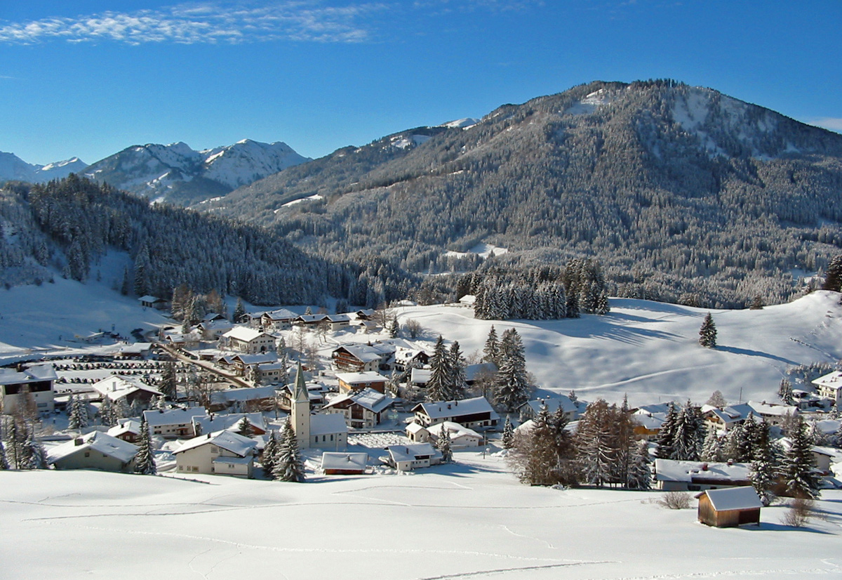 View from southside of Pfeiferberg to the west on Jungholz (1058 m). In the background Nebelhorn-Northridge, Entschenkopf (2043 m), Jochschrofen (1625 m), Spieser (1651 m), Wertacher Hörnle (1695 m), Starzlachberg (1585 m) and Gerenköpfle (1504 m).